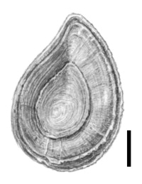 Drawing of an operculum of Bithynia bavelensis. Scale bar is 1 mm.